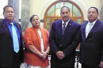 A delegation on Niue MP's attending a study programme at the NZ Parliament in August 2012. Pictured: Mr Crossley Tatui, Hon Joan Viliamu, Mr Dalton Tagelagi, and Mr Stanley Kalauni.